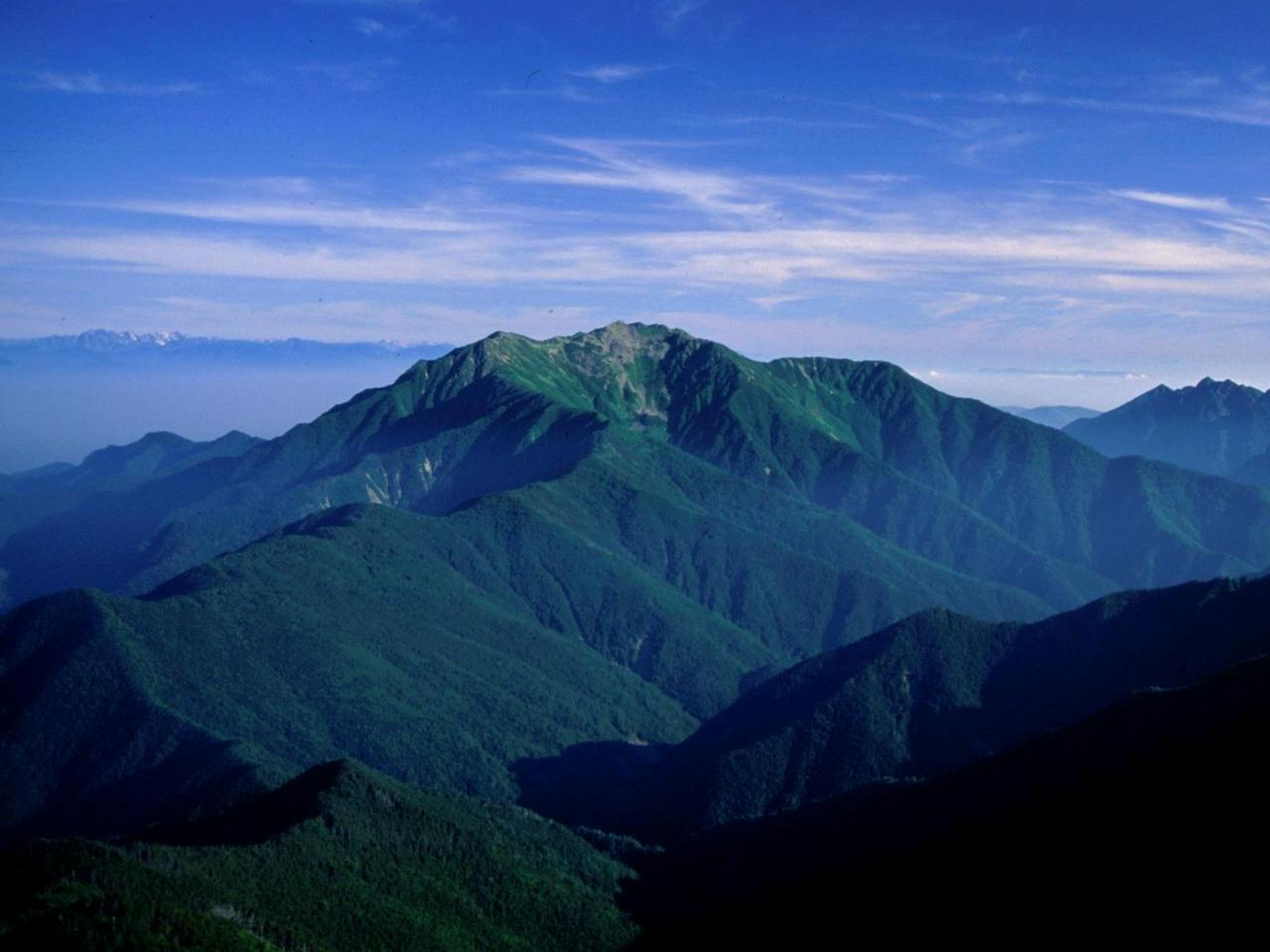 Mount Senjō from Mount Mibu